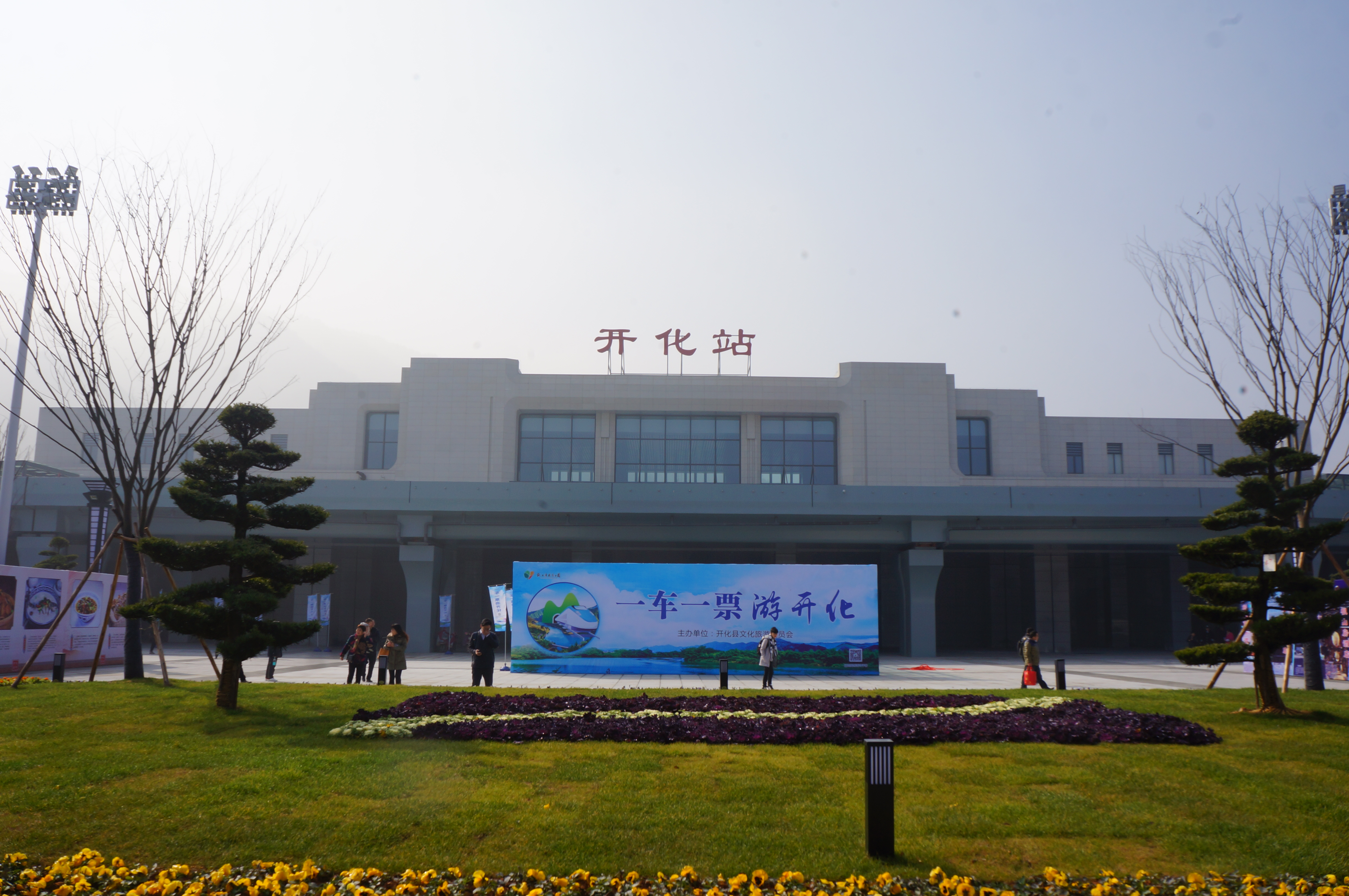 201712 Kaihua Station, with vicinity infrastructure mostly incomplete